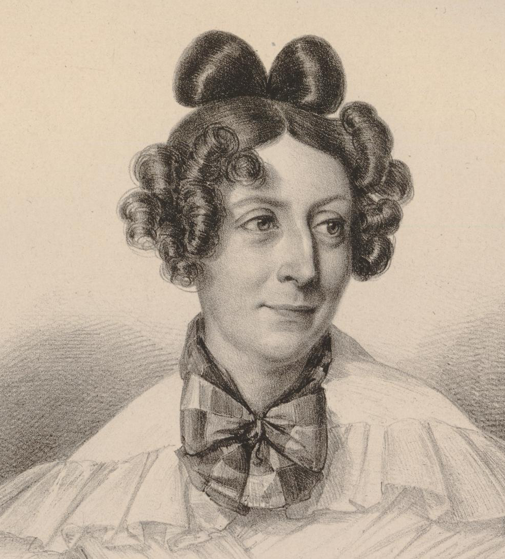 Laure Junot, Duchesse d'Abrantès. Detail of a lithograph by Thierry Frères, after a painting by Jules Boilly, 1836